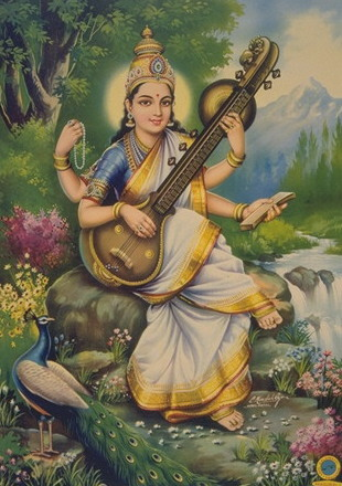 Saraswati Goddess of Learning